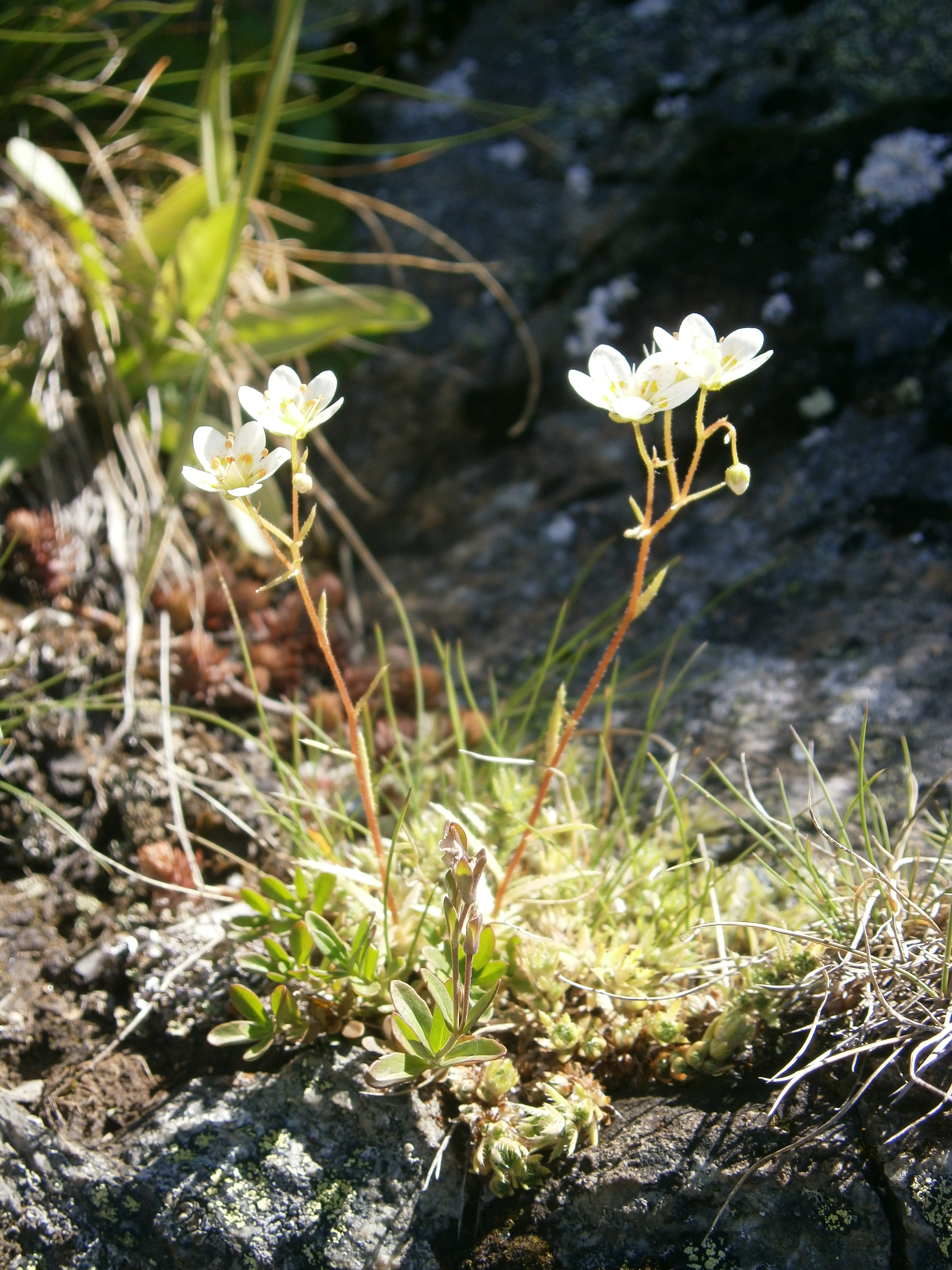 Saxifraga aspera